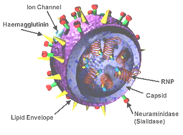 3D model of an influenza virus.